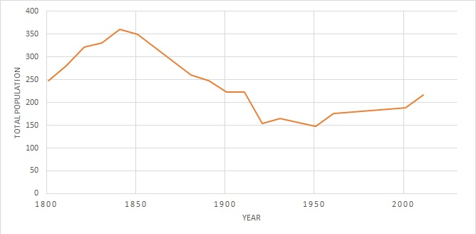 Total Population of Poughill Civil Parish, Devon, as reported by the Census of Population from 1801 to 2011